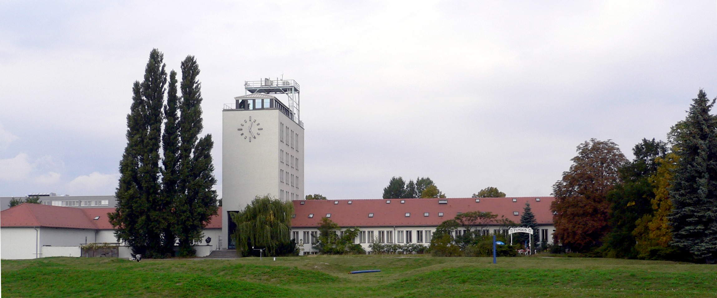 Fernsehzentrum Adlershof, by Wolfgang Wunsch at Berlin-Adlershof, Germany. Image rotated, cropped.